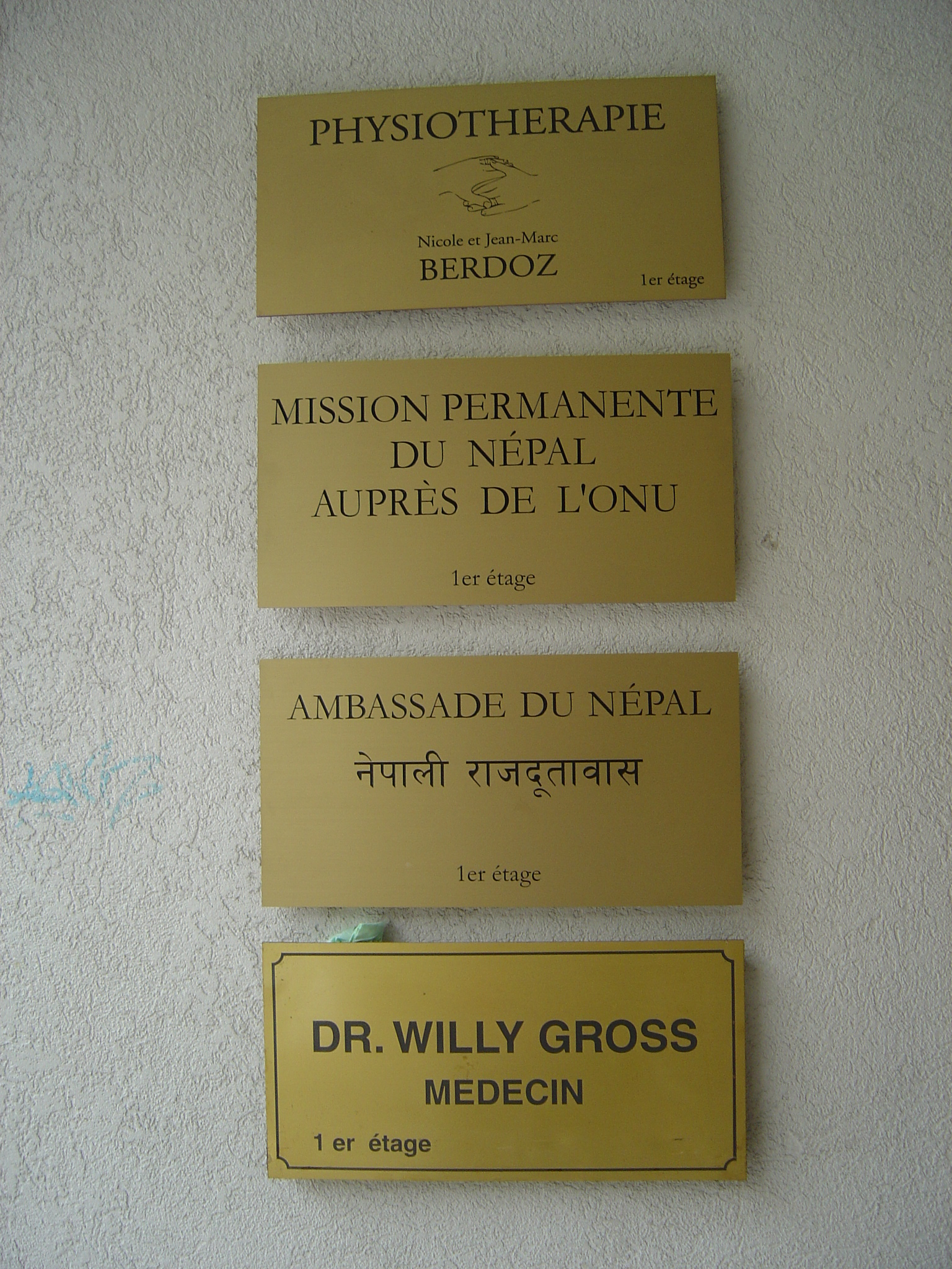 Nepal Embassy in Geneva, Switzerland